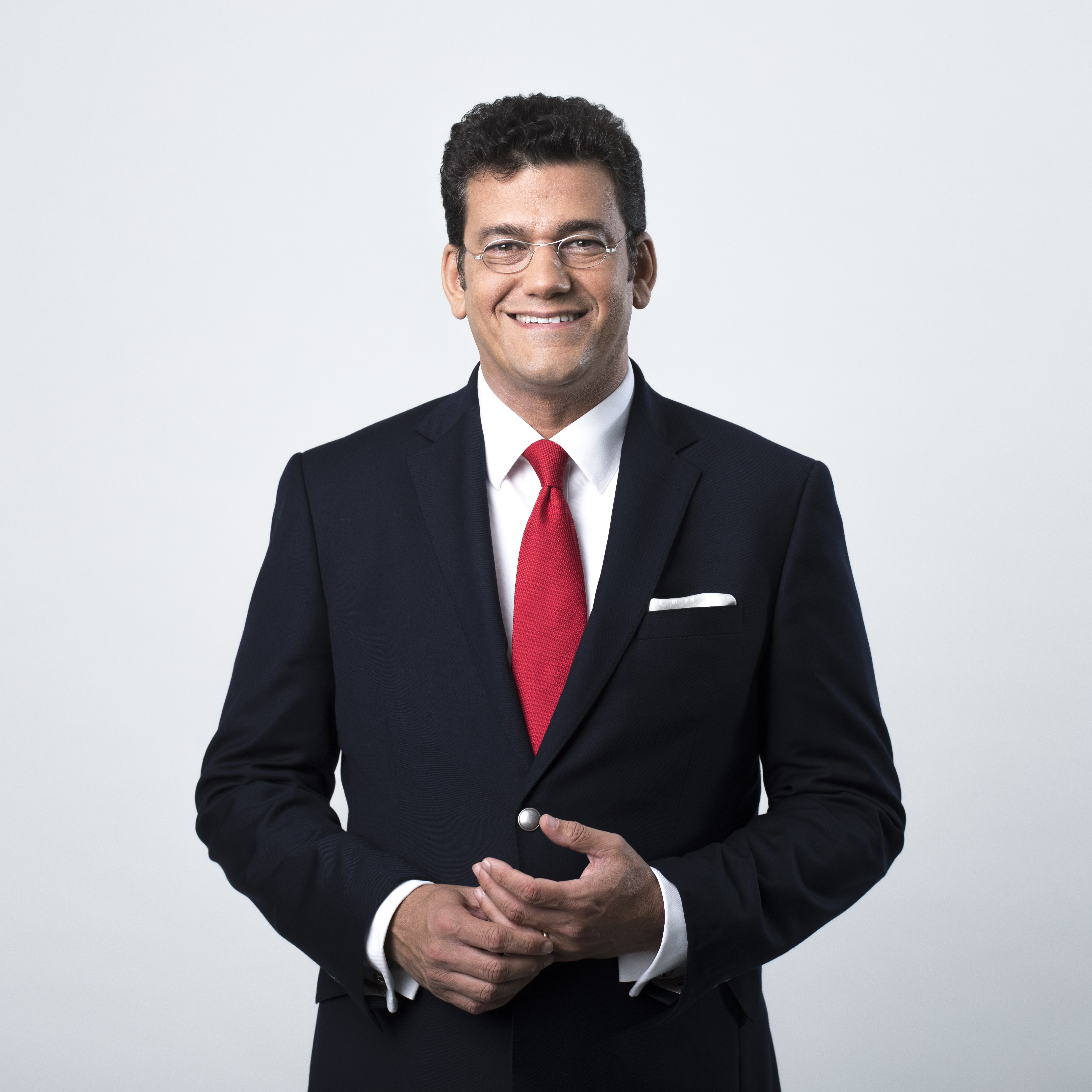 Jörg Allgäuer